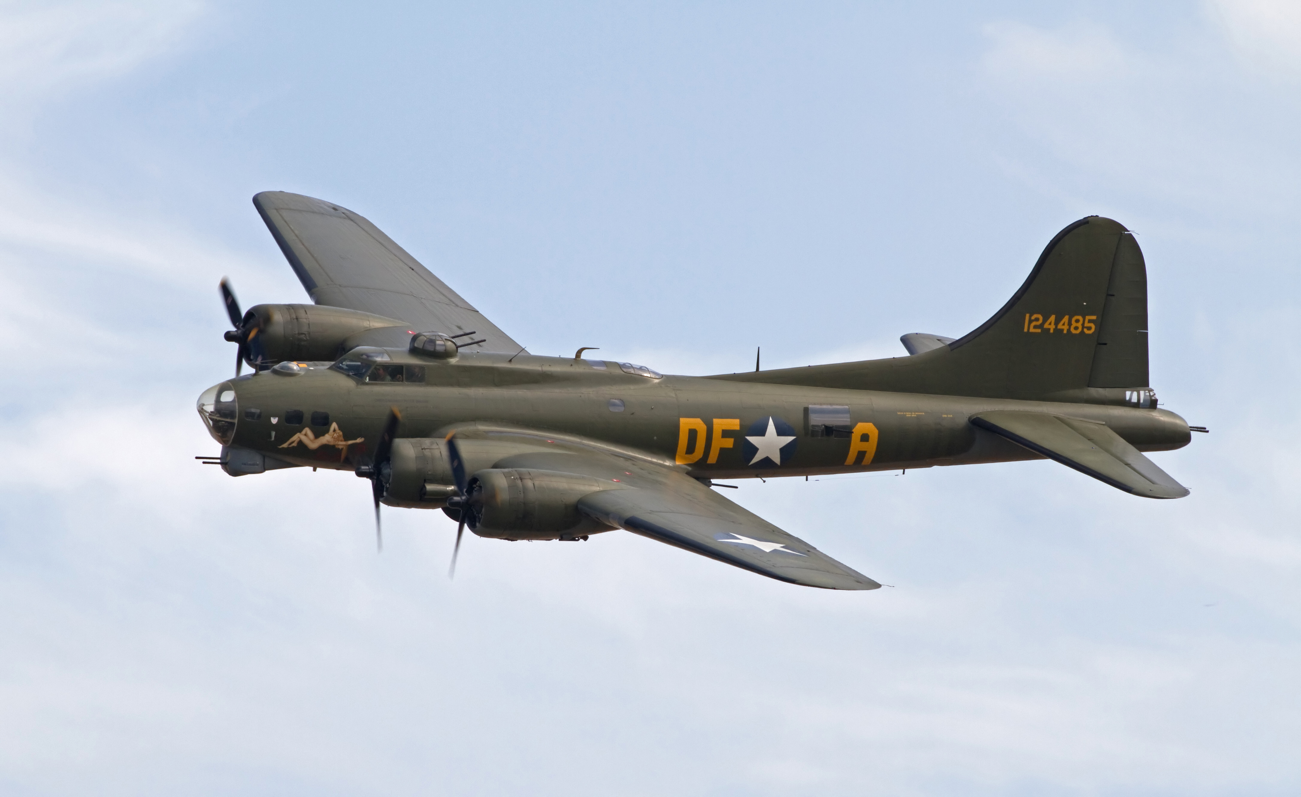 B-17 Sally B 2a